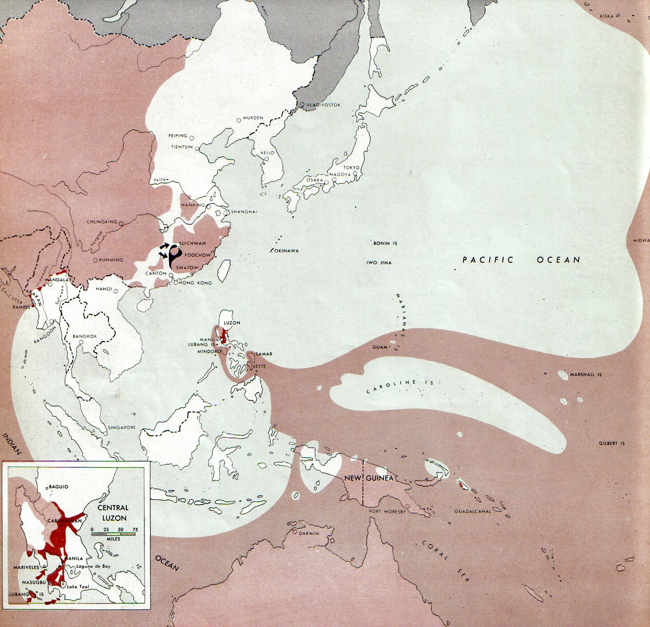 Map of the front against Japan as of 15 Feb 1945: This map is taken from the source "Atlas of the World Battle Fronts in Semimonthly Phases to August 15th 1945: Supplement to The Biennial report of The Chief of Staff of the United States Army July 1, 1943 to June 30 1945 To the Secretary of War". (See Cover, Forward and Map details)